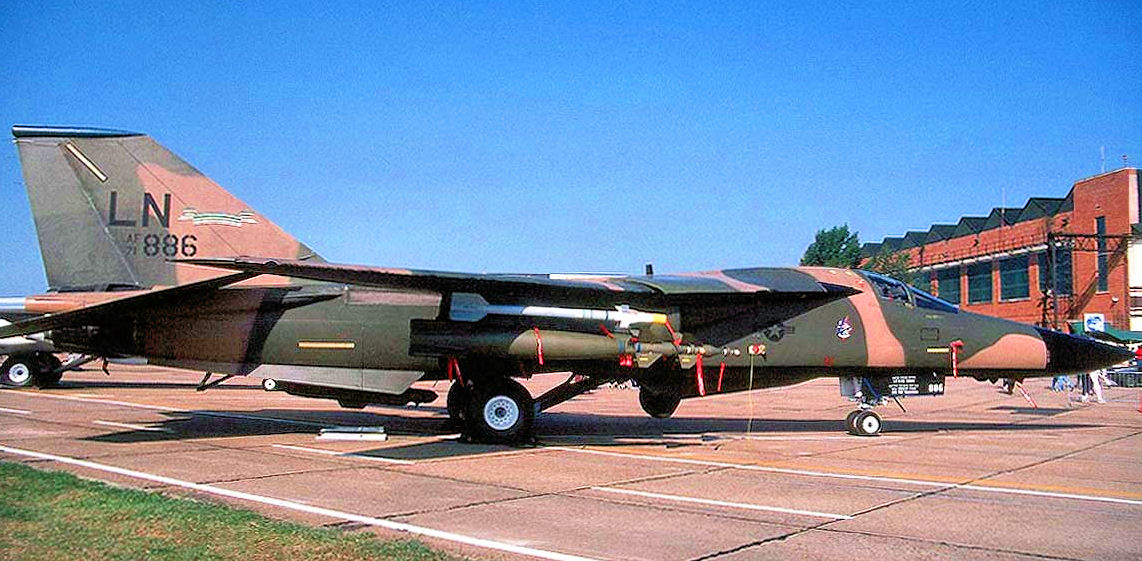 492d Tactical Fighter Squadron - General Dynamics F-111F - 71-0886